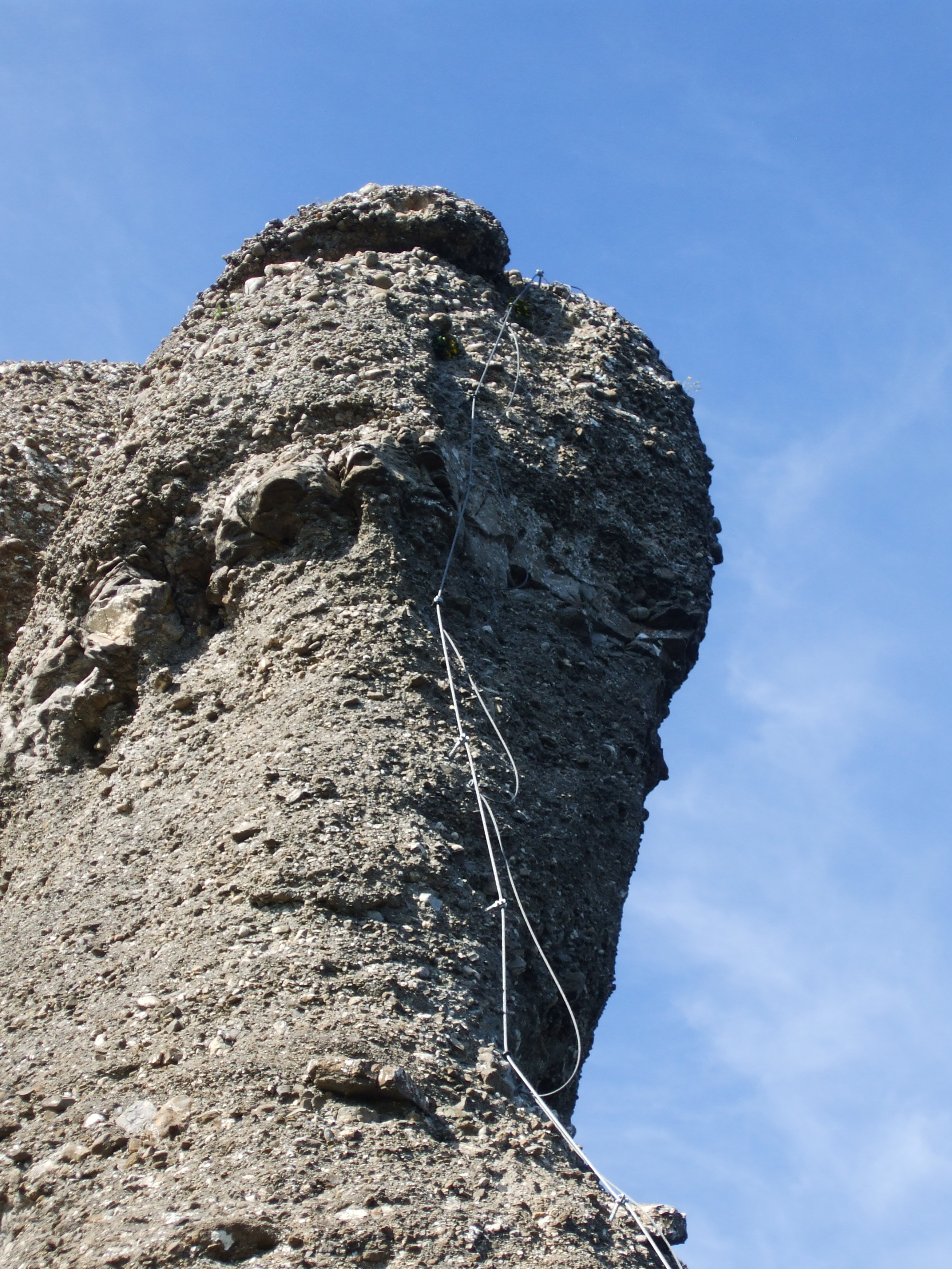 Ferrata Deanna Orlandini, Genoa